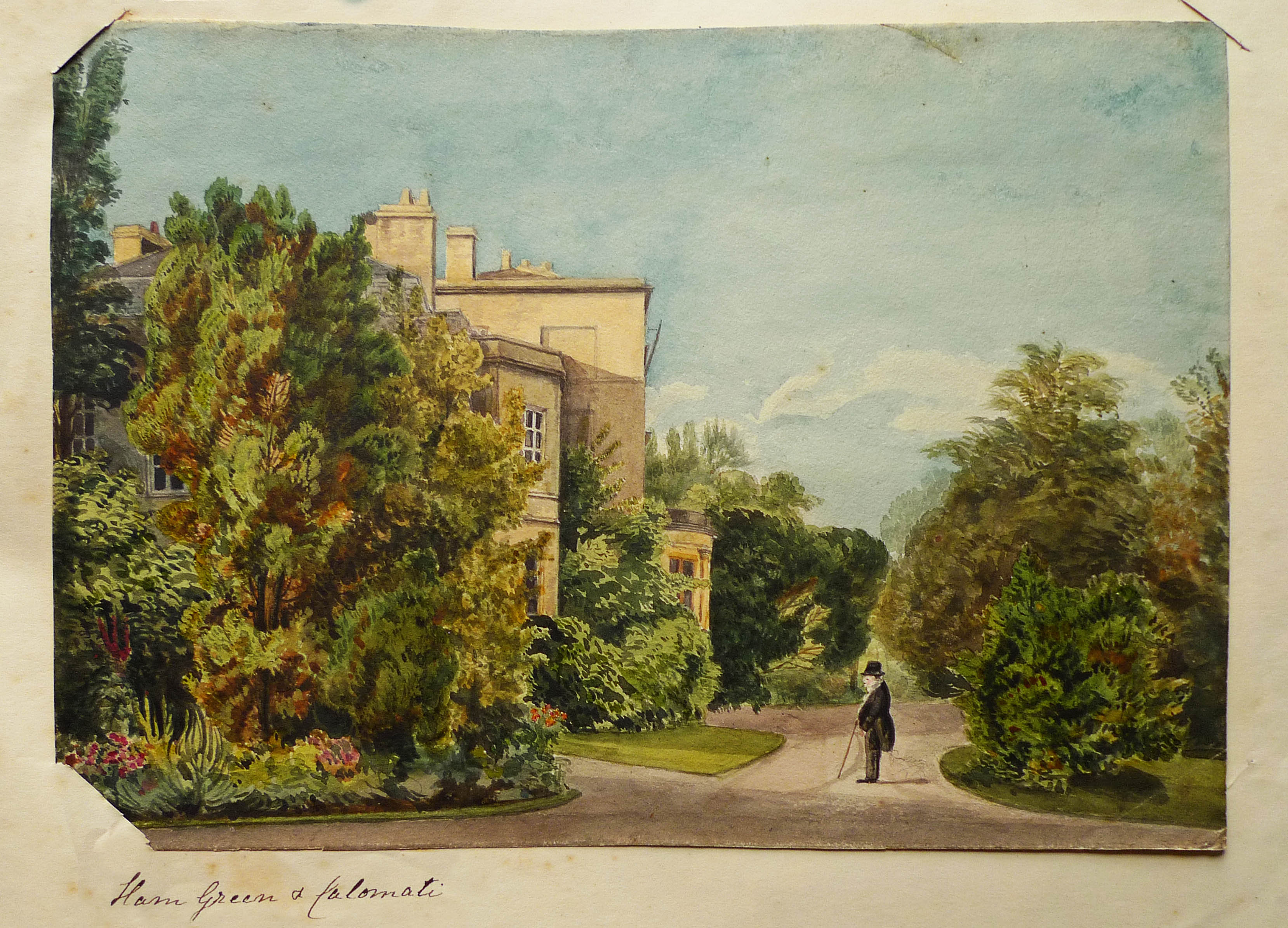 Painting of Ham Green House by Sarah Ann Bright (date unknown)